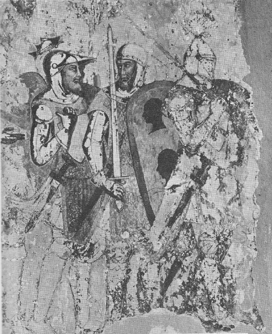 “Detail of a fresco on the walls of a hall in the bishop's palace at Colle Val d'Elsa. Under the knight on the left appears the legend: "C di Savoi" [not visible]. The fresco portrays the departure of barons on a crusade and some of their exploits against the infidel. The artist is unknown, but the fresco is usually ascribed to the Sienese school and dated in the last half of the fourteenth century. Photograph by Grassi, Siena.” Description from: Cox, Eugene L. (1967). The Green Count of Savoy: Amadeus VI and Transalpine Savoy in the Fourteenth Century. Princeton, New Jersey: Princeton University Press, p. xv.